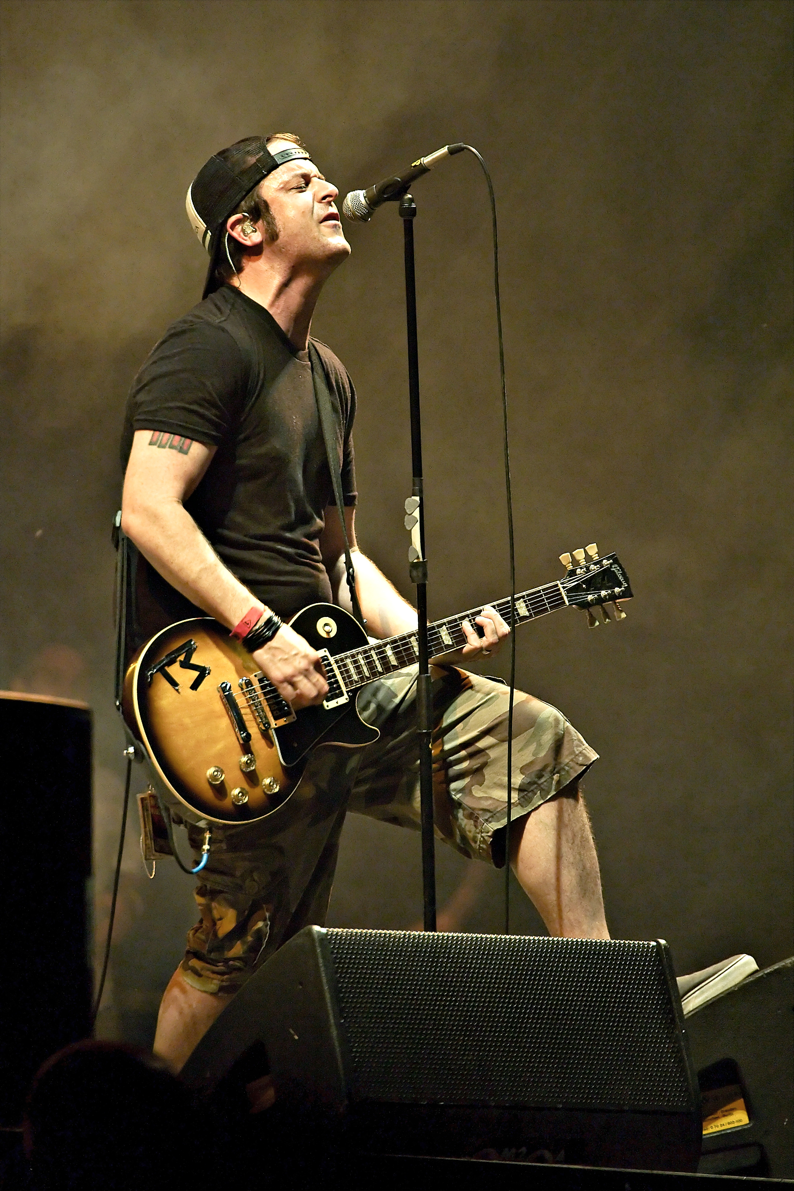 The rhythm-guitarist and vocalist Tony Sly from No Use For A Name performing at the Rheinkultur festival at Bonn, Germany.